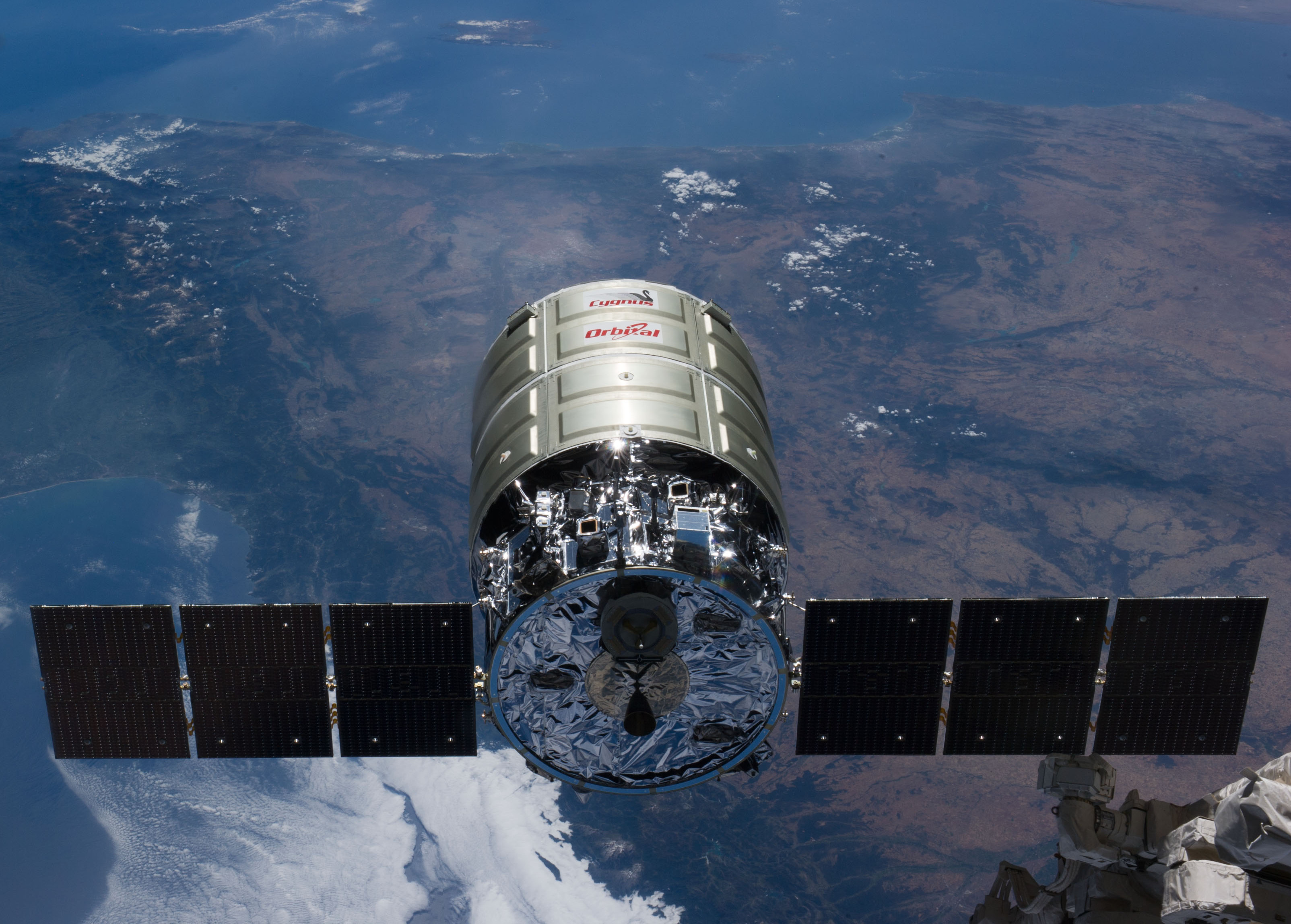 ISS040-E-069168 (16 July 2014) --- As photographed by an Expedition 40 crew member inside the International Space Station's Cupola, Orbital Sciences' Cygnus cargo vehicle and the orbital outpost move toward each other at 223 nautical miles above the home planet. The two converged at 6:36 a.m. (EDT) on July 16, 2014. Parts of western Europe are visible in the background. A small part of the Space Station Remote Manipulator System or Canadarm2 can be seen as it waits to grapple Cygnus.